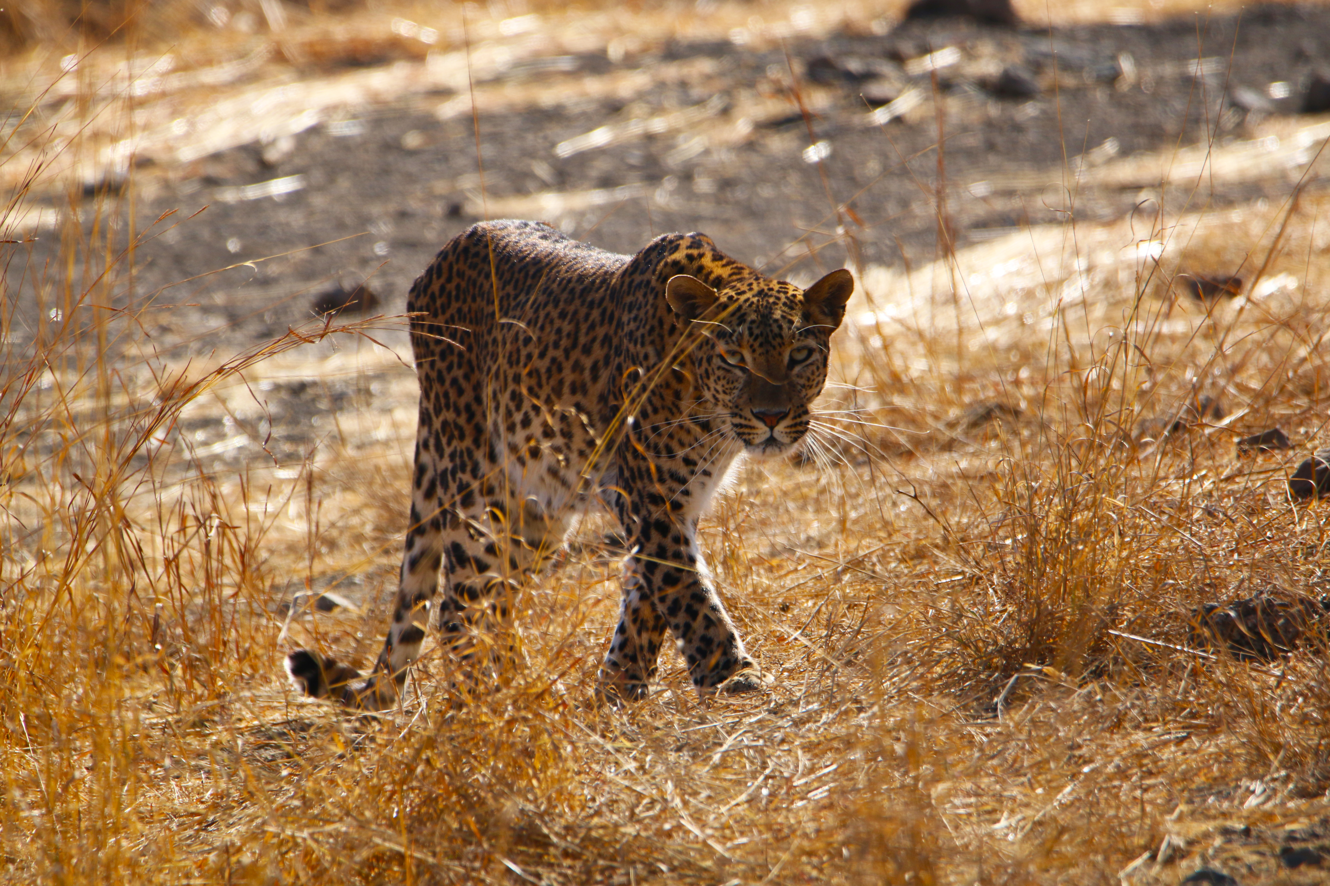 An Indian leopard in Gir Forest